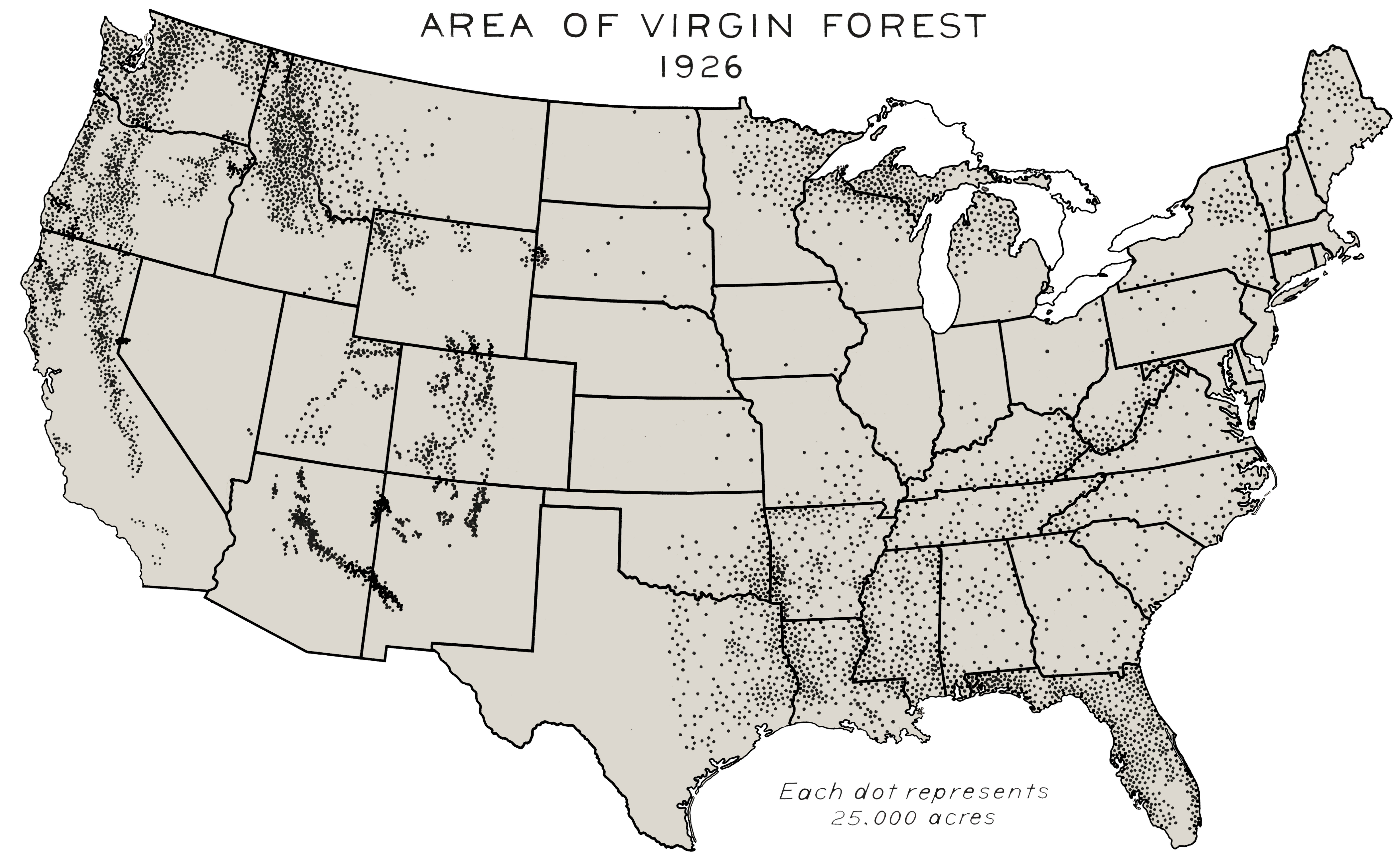 Forests never harvested by European settlers or their descendants, 1926.